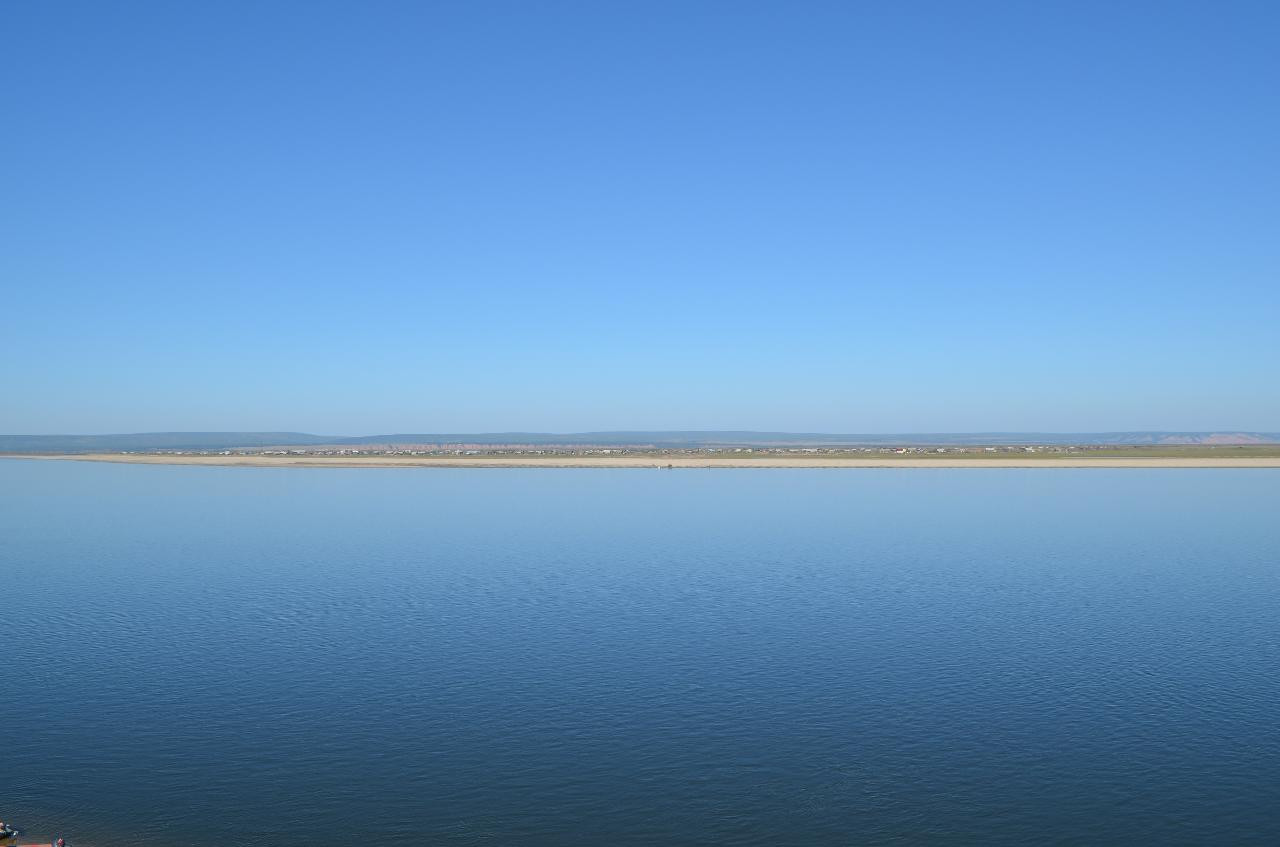 This photos are made during cruise Yakutsk — Lеnskiye Shchyoki, Lena Cheeks — Yakutsk (with arrival in Mirny), 05.09−17.09.2016